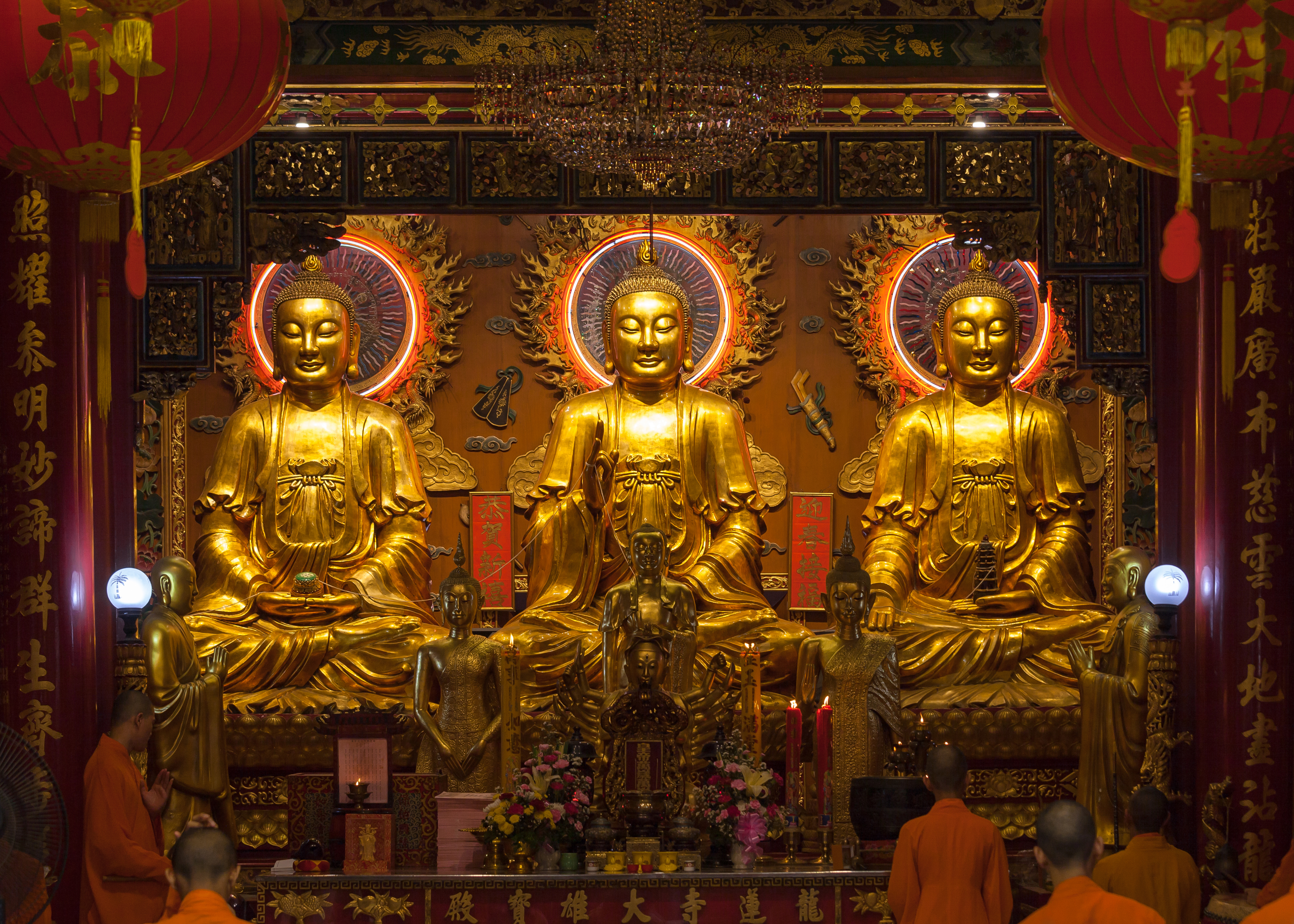 The Three Buddhas at Wat Mangkon Kamalawat (Wat Leng Noei Yi), Bangkok.